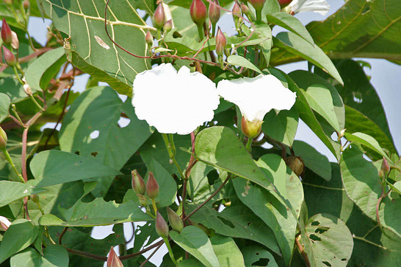 Nisottar Operculina turpethum in Kawal Wildlife Sanctuary, Andhra Pradesh, India.